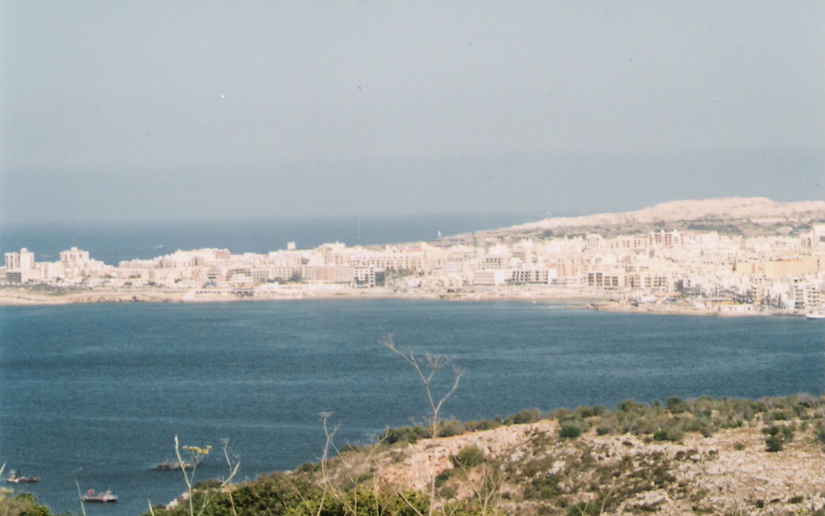 Own Photo; taken on Malta, Mai 2001 by ERWEH